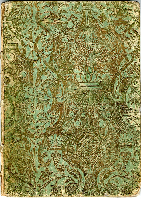 Cover of Copiale Cipher